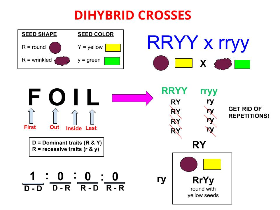 In this Dihybrid Cross, homozygous dominant traits were crossed with homozygous recessive traits. This particular cross always results in the phenotypic ratio of 1:0:0:0 meaning that the offspring will all have both dominant phenotypes but will be carriers of the recessive phenotypes.